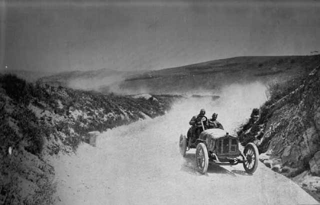 Felice Buzio (and a co-driver, it seems) in Diatto-Clément at 1907 Targa Florio, Sicilia. He had entry #16 (or #16A), did all 3 laps (277 km in total) and ended in 18th position.[1]